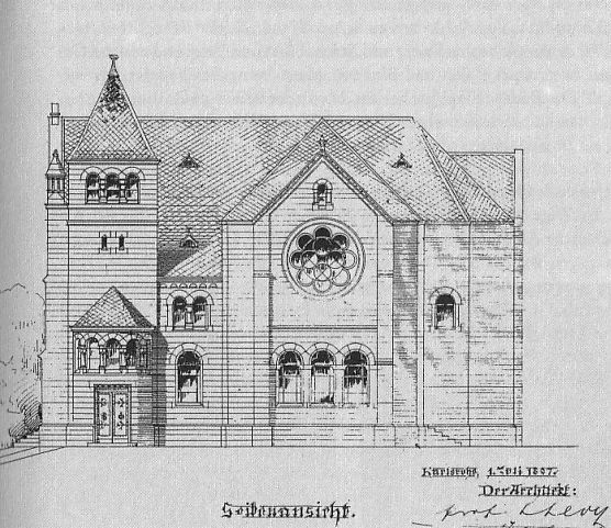 Architect drawing of the synagogue in Baden-Baden (Germany) destroyed in 1938 during the Kristallnacht